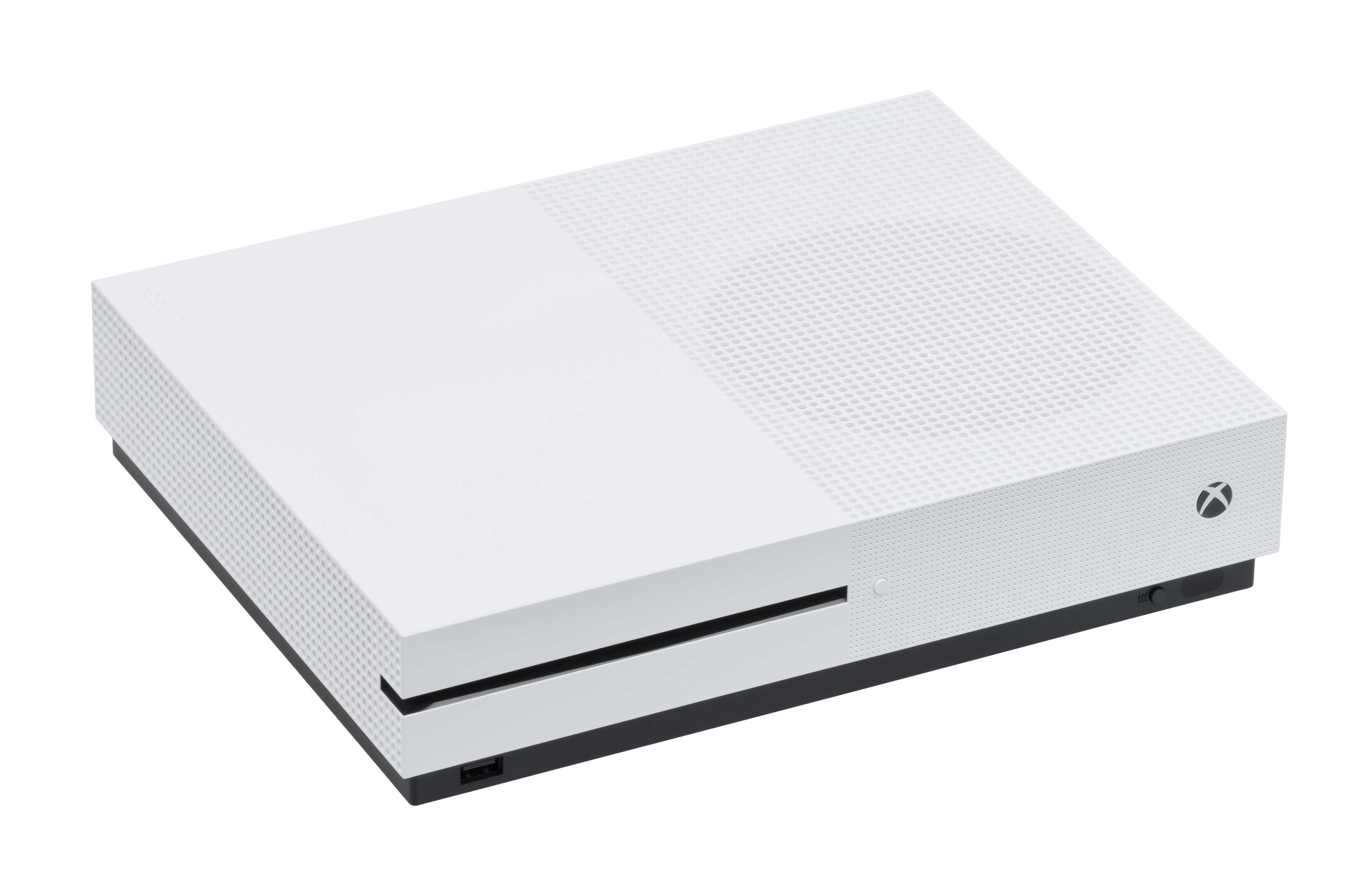 The Xbox One S, a video game console made by Microsoft and released in 2016. The "S" is a slimmer model of the previous One that was first released in 2013. Besides being smaller, the S has new features like HDR and 4K video from streaming and UHD Blu-Ray sources.